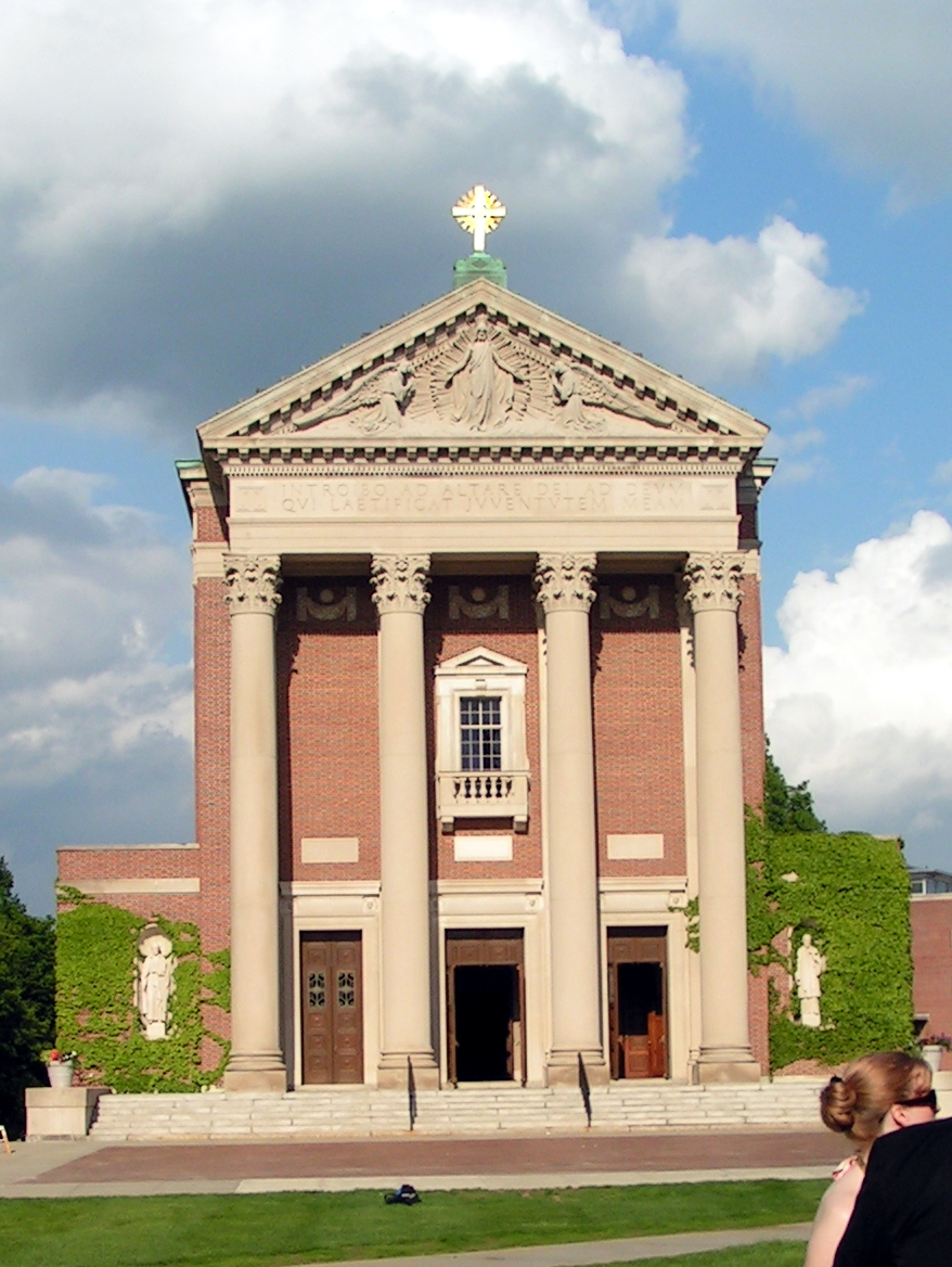 St. Joseph Memorial Chapel, The College of the Holy Cross, Worcester, Massachusetts